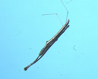 male Rhomphaea hyrcata from Okinawa.